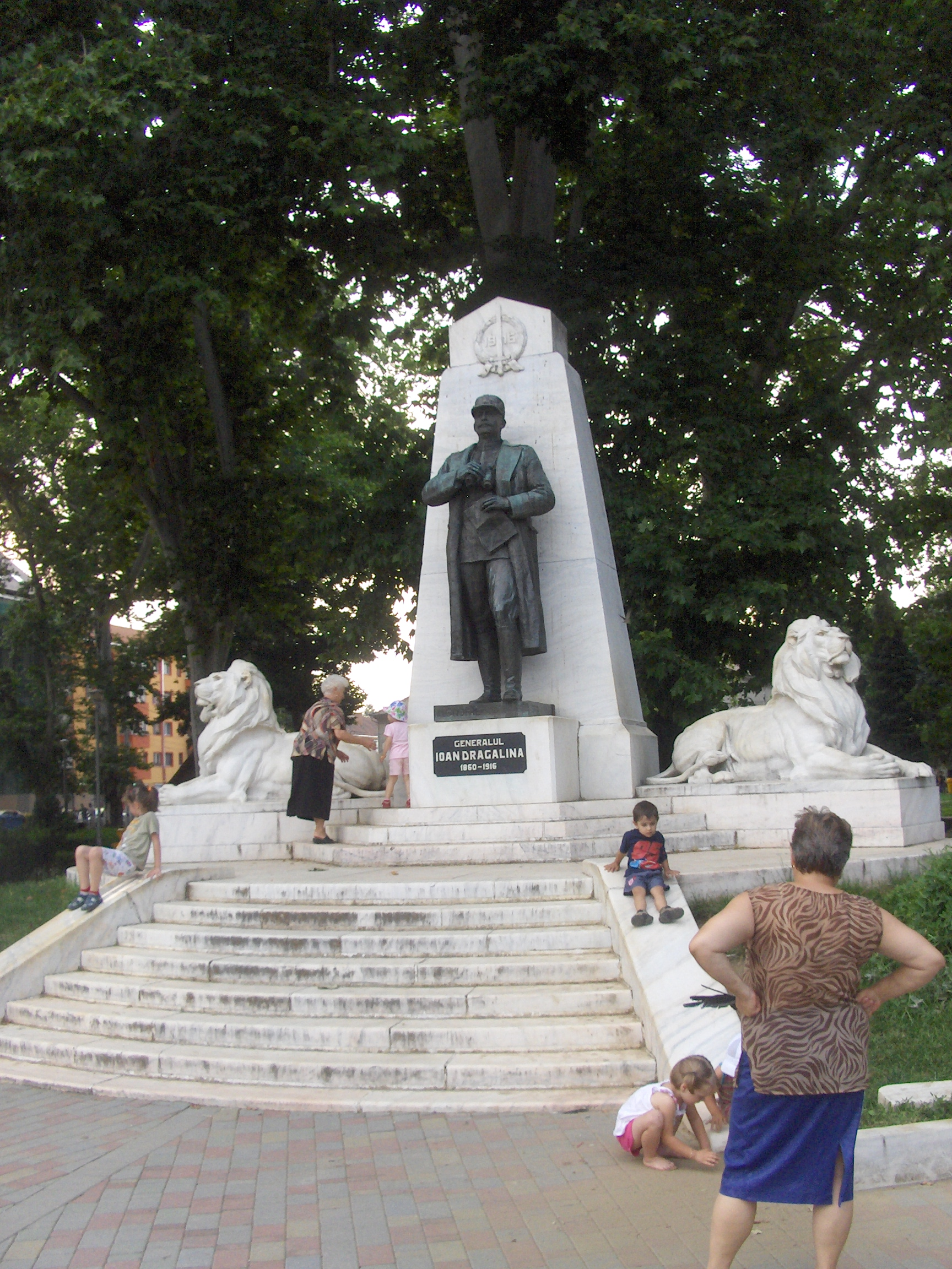 General Ion Dragalina - monument in center Caransebes